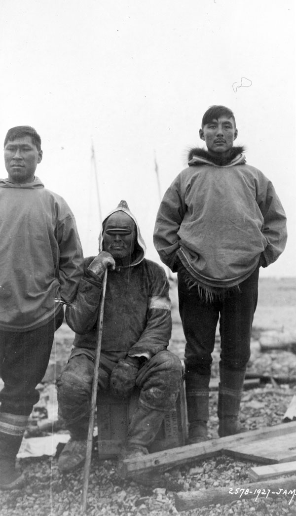 From left to right Ikey Bolt, unknown, Patsy Klengenberg. Title / Titre : Ike Bolt, oldest hunter and resident of Forsyth Bay, Northwest Territories [now Nunavut] / Ike Bolt, chasseur le plus âgé et résident le plus ancien de la Baie de Forsyth (Territoires du Nord-Ouest) [maintenant Nunavut] Creator(s) / Créateur(s) : J. A. McDougal Date(s) : 1927 Reference No. / Numéro de référence : MIKAN 3847079 Location / Lieu : Victoria Bay, Nunavut, Canada Credit / Mention de source : J. A. McDougal. Canada. Department of Indian Affairs and Northern Development. Library and Archives Canada, e008440837 / J. A. McDougal. Canada. Ministère des Affaires indiennes et du Nord canadien. Bibliothèque et Archives Canada, e008440837